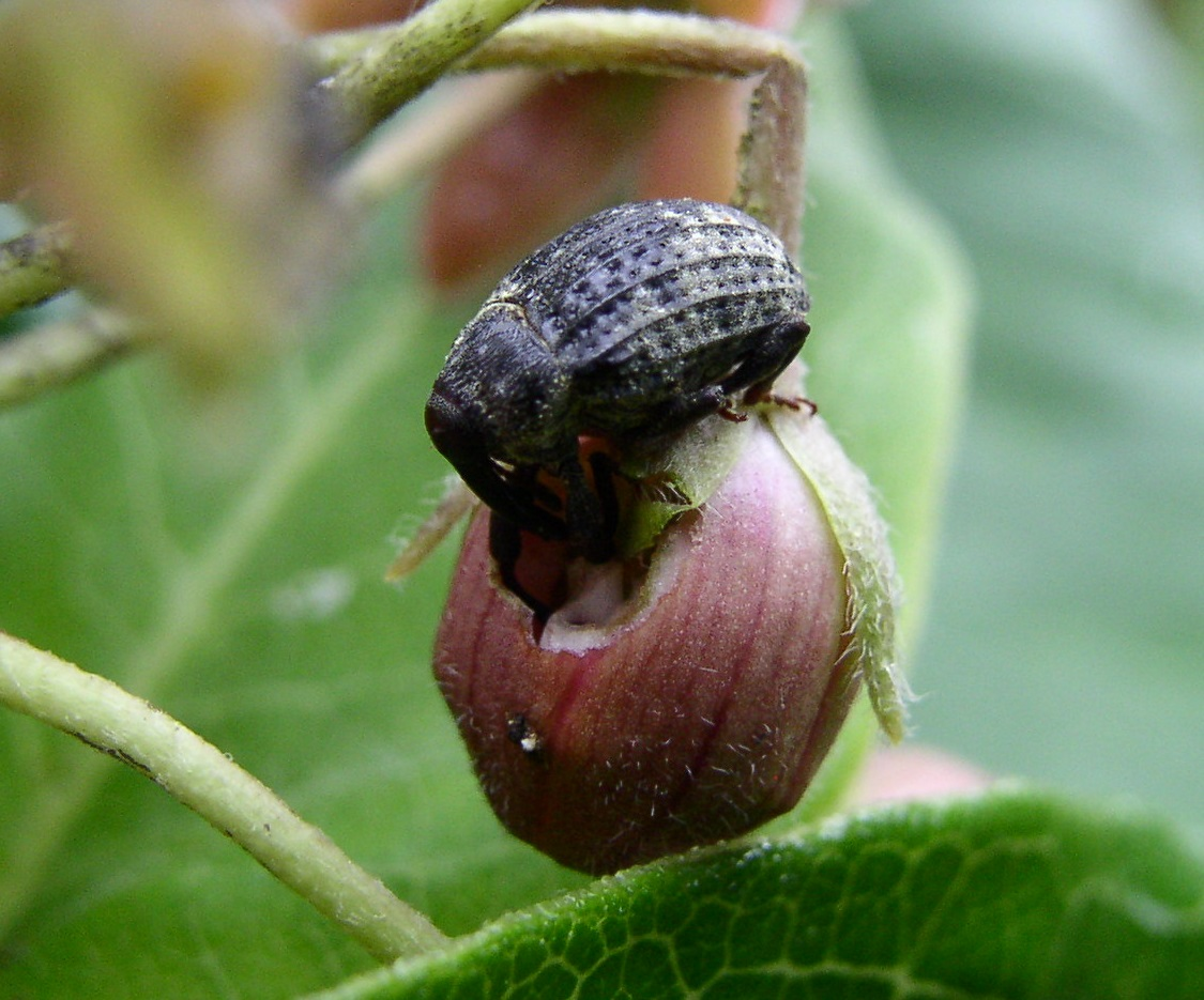 Milkweed stem weevil, Rhyssomatus lineaticollis, on common milkweed blossom. Churchville Nature Center, Bucks County, Pennsylvania, USA.